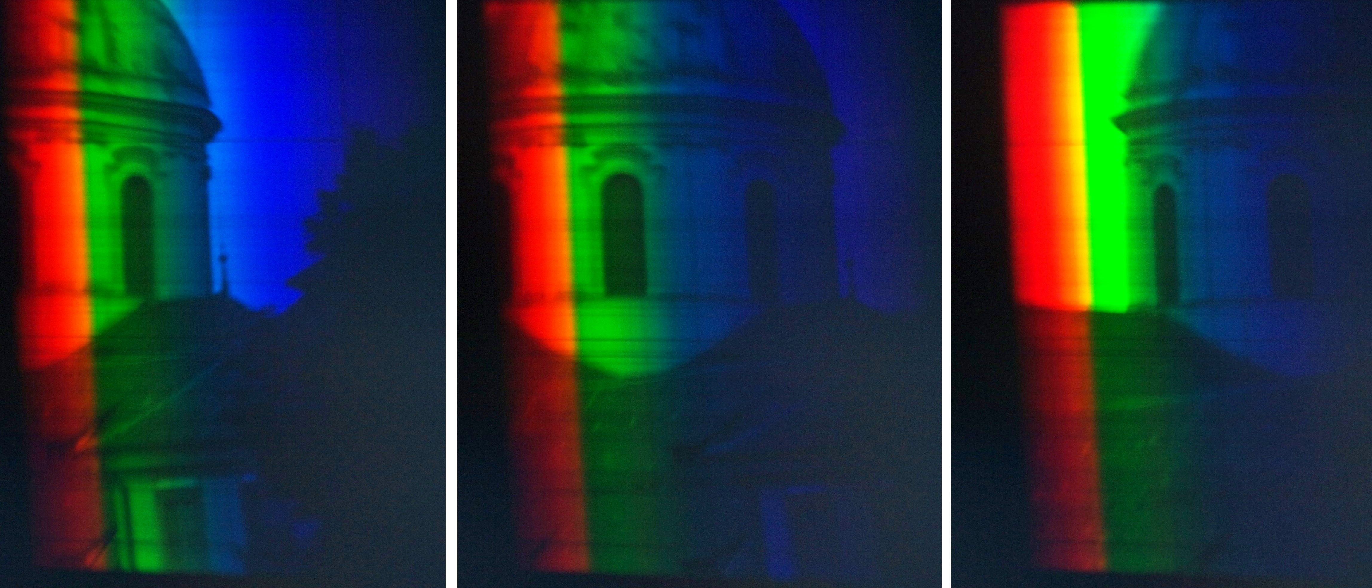 Three images from a sequence of spatiospectral scanning. A prism in front of a lens-enhanced prism spectrograph was used to obtain rainbow-colored images of the basilica of Weingarten/Germany. Exposure time: 1/25 sec with aperture 5.6